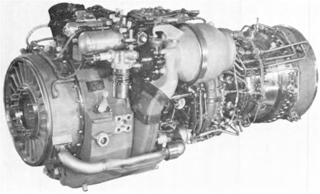 GE T700 UTTAS engine